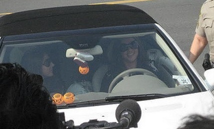 Britney Spears driving from court on October 26, 2007